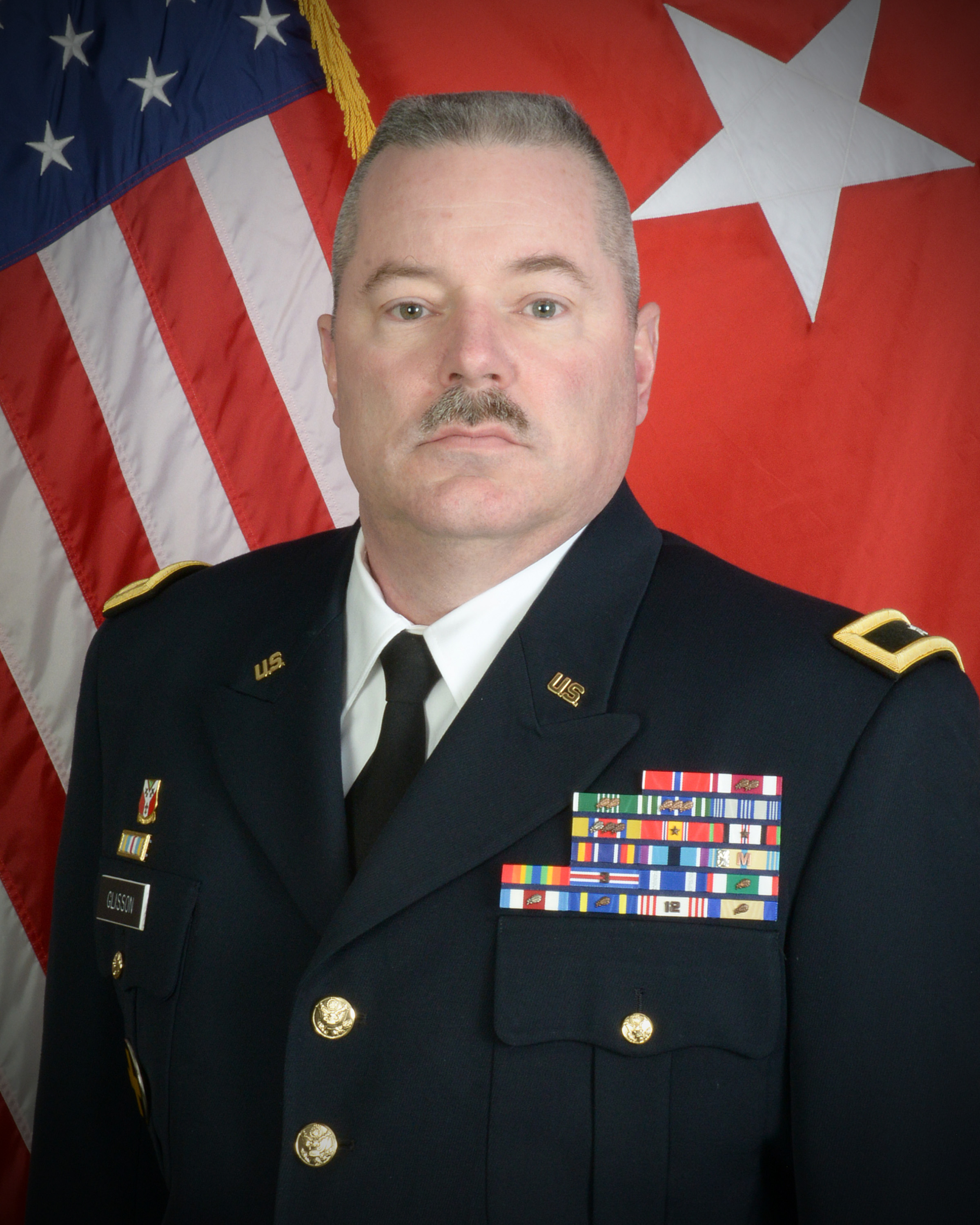 Official portrait of Brigadier General Michael Glisson.